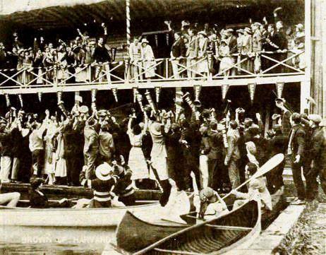 Still from the American film Brown of Harvard (1918), on page 1983 of the June 28, 1919 Moving Picture World.